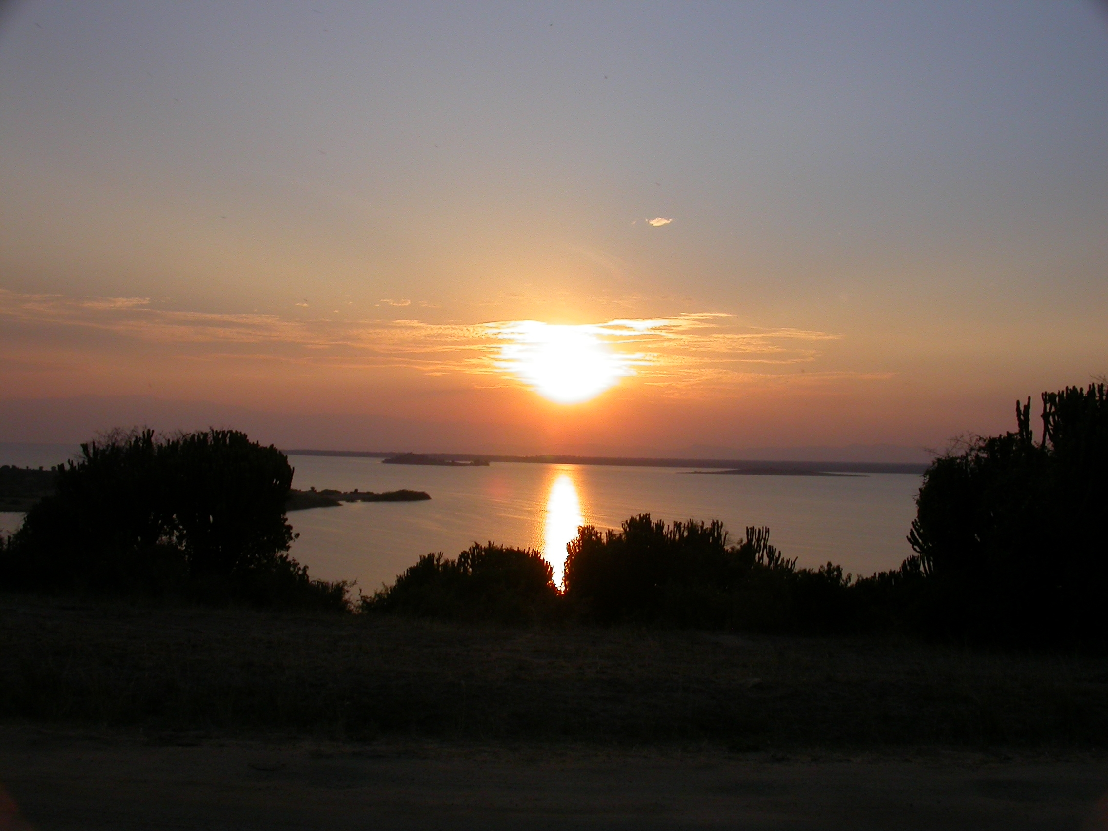 Lake Edward from Mweya in Uganda's Queen Elizabeth National Park. The Democratic Republic of the Congo is in the background.